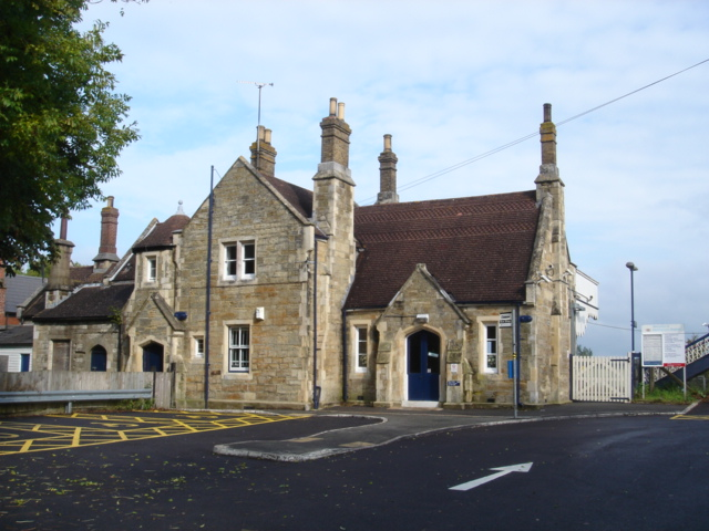 Main building on the Up side at Etchingham railway station. Photographed on 29 September 2007.